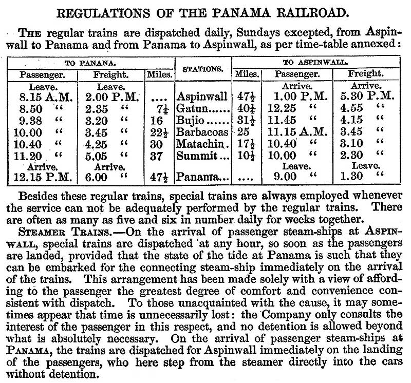 Regulations and schedule of the Panama Railroad, 1861. From "Illustrated History of the Panama Railroad" by Fessenden Nott Otis, Harper & Brothers, New York, 1861 (The Cooper Collections)